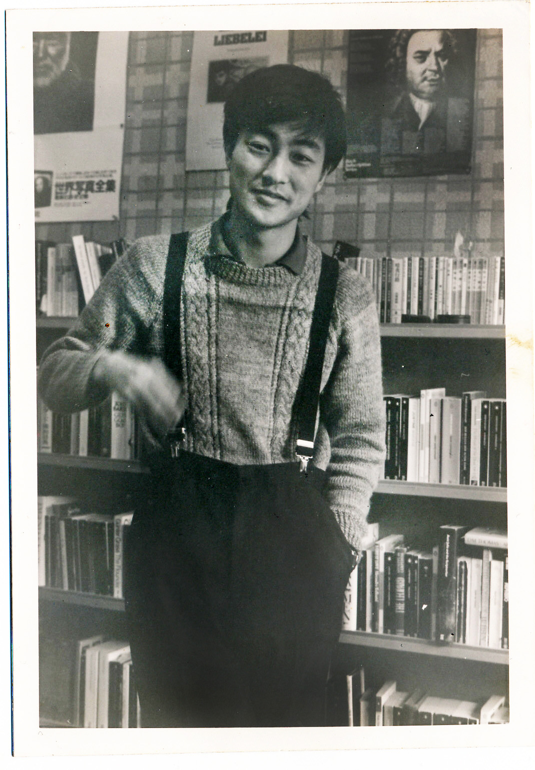 Ichiro Kawachi photographed while a medical student at Otago University in the 1980s. uploaded by Tahatai (talk) 03:55, 24 July 2019 (UTC) photographed by Tahatai (talk) 03:55, 24 July 2019 (UTC)